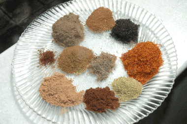 Ground spices, before mixing together as ingredients in Gulf-style baharat (which is also called kebse or kebsa). The ten ingredients are as follows: 1 1/2 tsp ground loomi (dried black lime) 1/2 tsp zafran / saffron 1 1/2 tsp dhania / coriander powder 1 1/2 tsp jeera / cumin powder 1 tsp ground kala miri/ black pepper 1 tbsp lal mirchi / red chillies ground. The photographer used sankeshwar chillies but you can use whatever you like. 1 1/2 tsp dalchini /cinnamon powder 1 tsp powdered lavang / cloves 1 tsp powdered elaichi / green cardamom 1 tsp jaiphal/ powdered nutmeg The recipe comes from a student from Bahrain. The photographer ground each ingredient seperately in the coffee grinder so that they were all about the same size and then mixed the lot together. Photo taken in Pune, Maharashtra, India. The recipe may be found here.